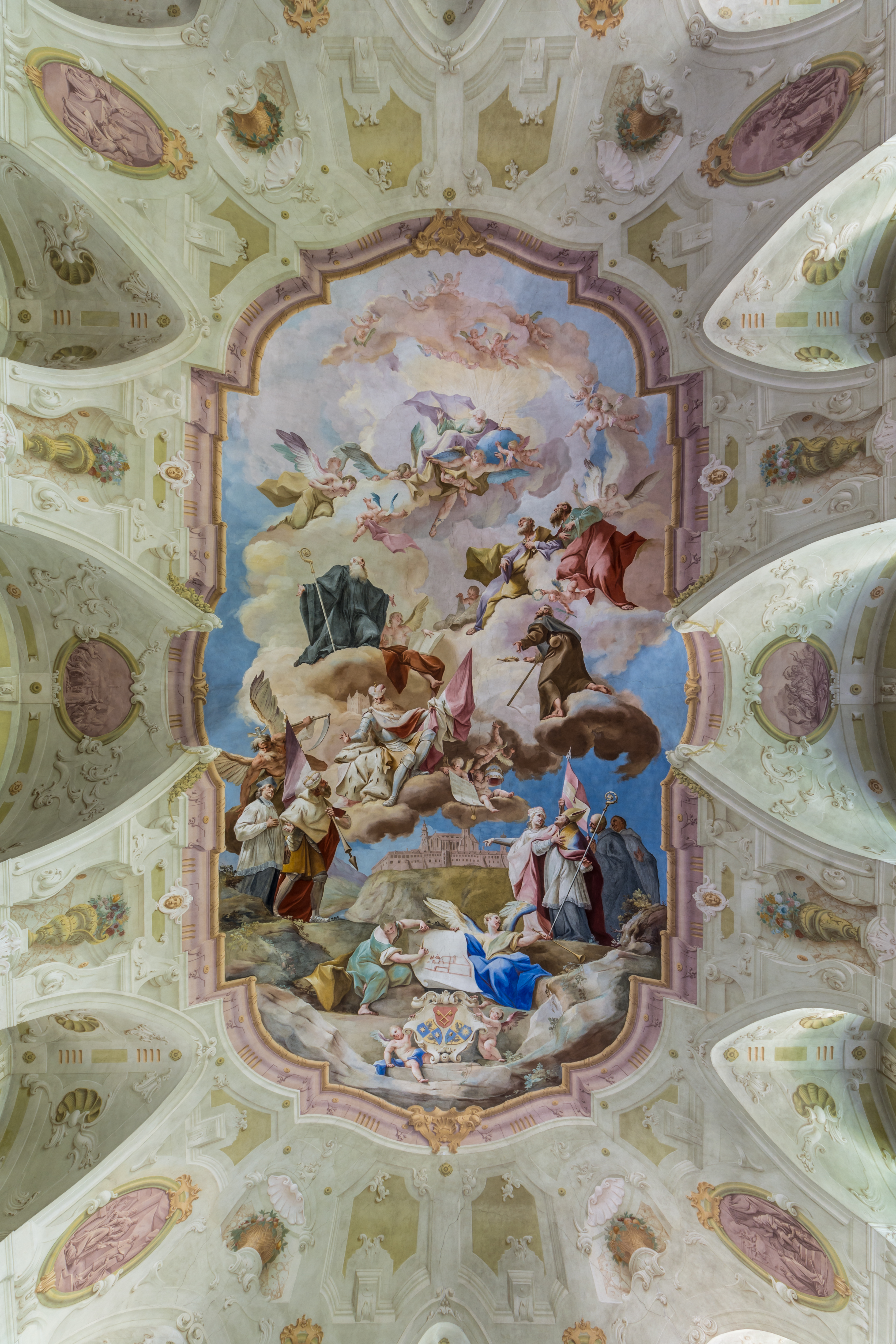 Ceiling fresco)